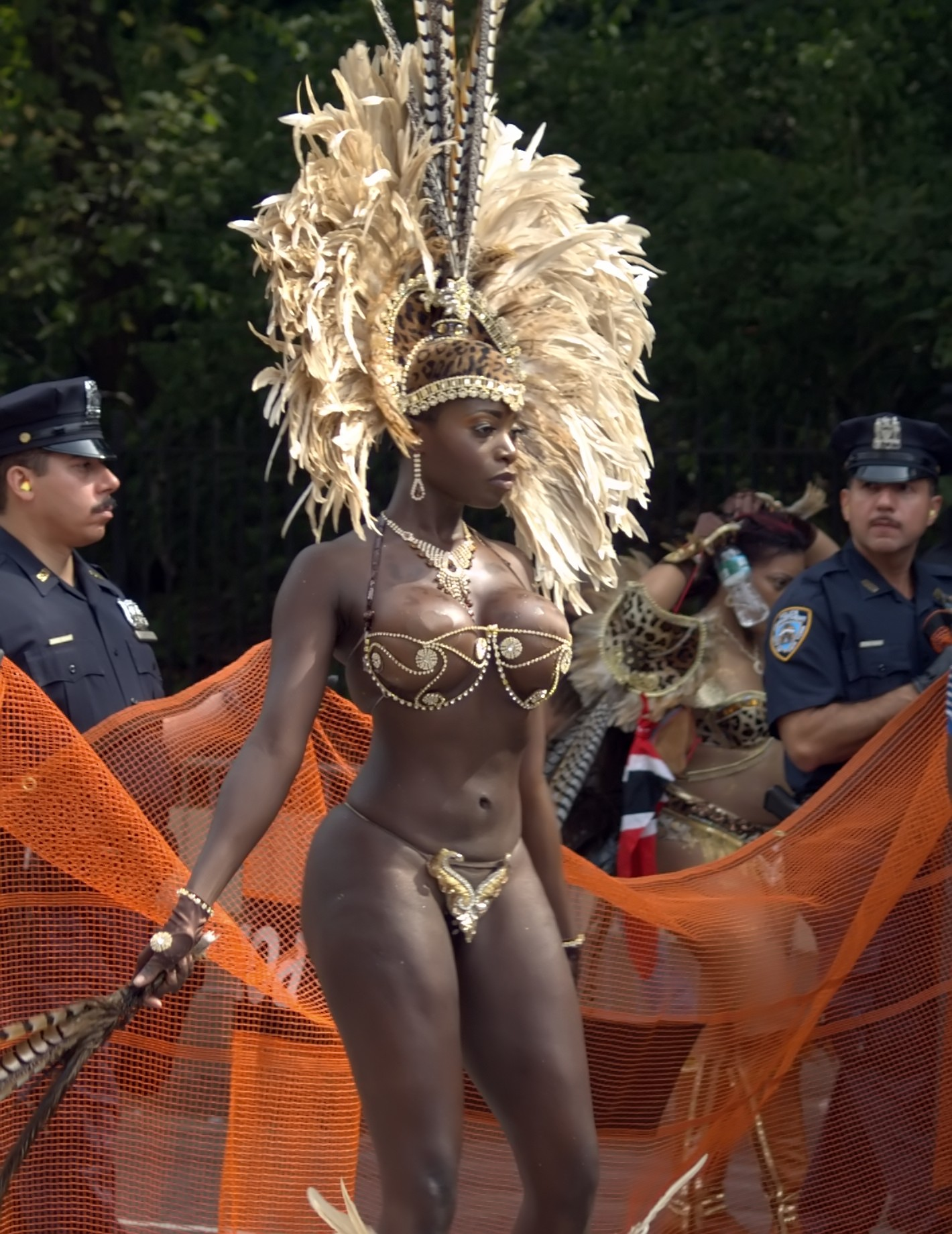 Parade marcher, "Symbaserothick", at the West Indian Day Parade in New York City. Photographer's blog post about photo and event